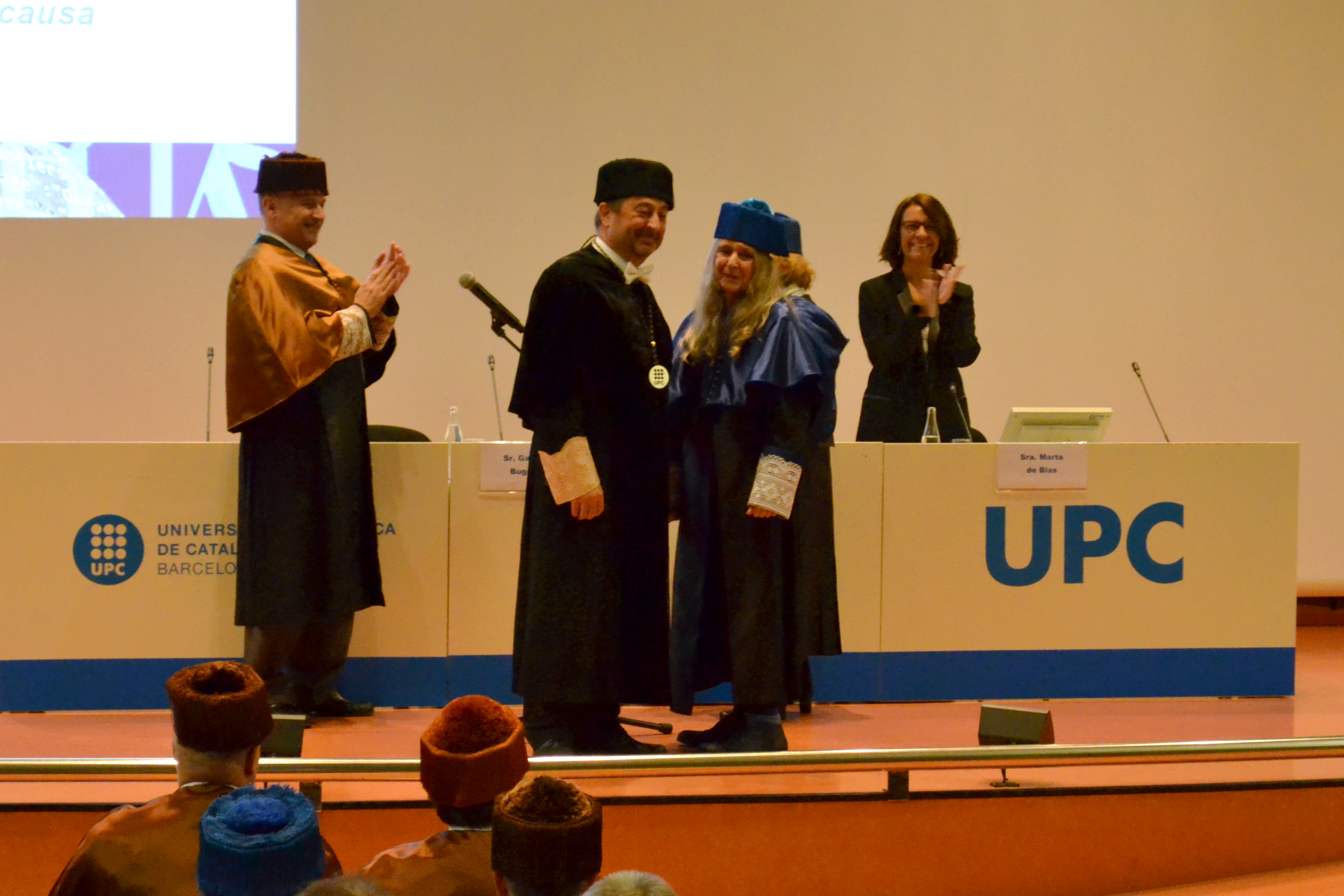 Margaret Hamilton and Francesc Torres at Universitat Politècnica de Catalunya during her honoris causa ceremony on October 18, 2018.